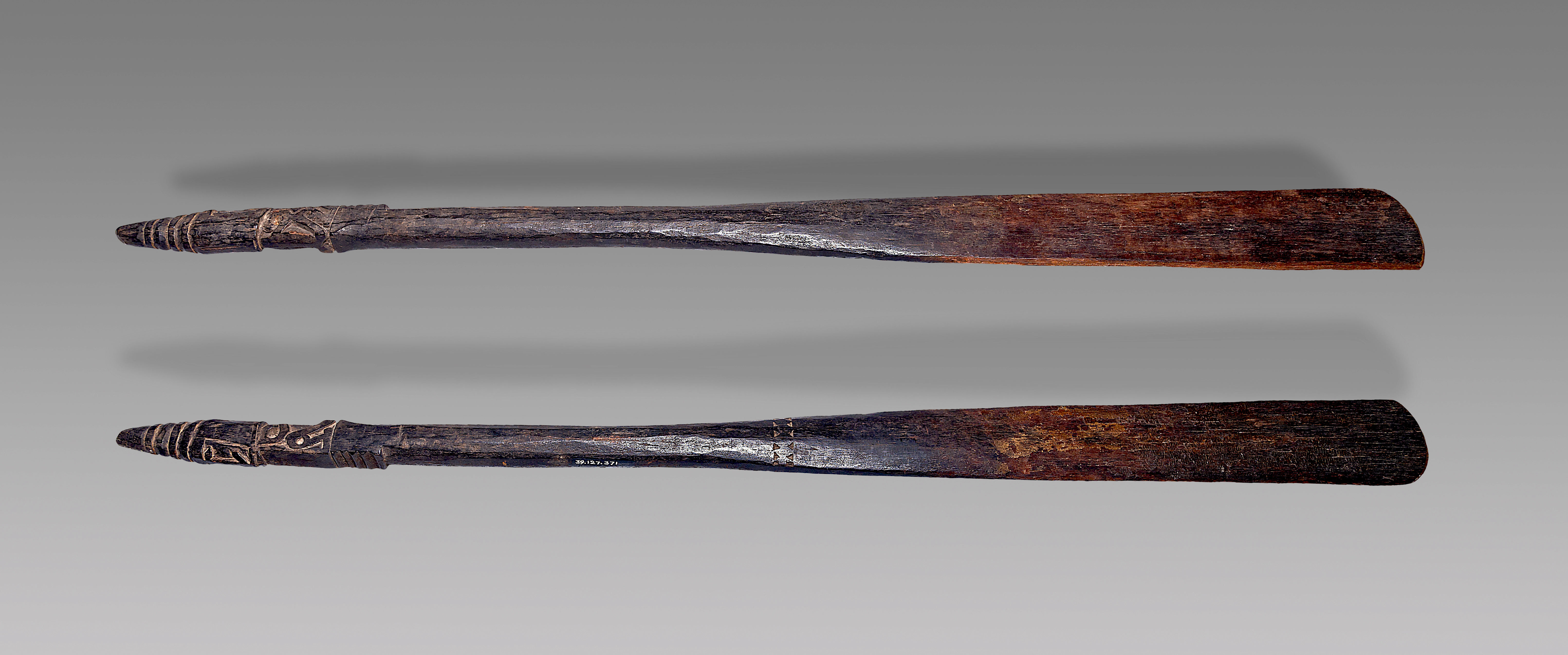 Spatula (Two views of the same object) Population : Cenderawasih Bay (previously Gheelvingk Bay) languages, Province of Papua, Indonesia Collector and collection: Collection Entry in 1942 (exchange with the Musée de l'Homme in Paris) Date of collection: the nineteenth century (4th Quarter) Materials: Wood Size : 69.5 x 5.5 x 2 cm